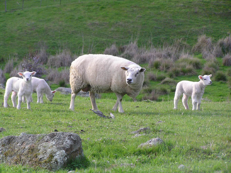 From (en)Image:Texel ewe and three lambs.jpg